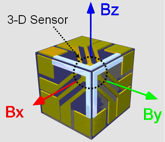 3D probe based on splitted Hall structures with corner active regions (the active region is denoted as 3D-sensor)